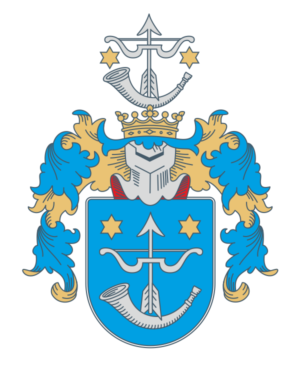 Dolhay de Dolha coat of arms reconstrustion based on Siebmacher's coat of arms book — J. Siebmacher's großes Wappenbuch. Der Adel von Ungarn samt den Nebenländern der St. Stephanskrone (Nachträge), Band IV, 15. Supplementband. / bearbeitet von Geza von Csergheö und József von Csoma. — Nürnberg: Bauer und Raspe, 1894. — S. 42, Taf. 27